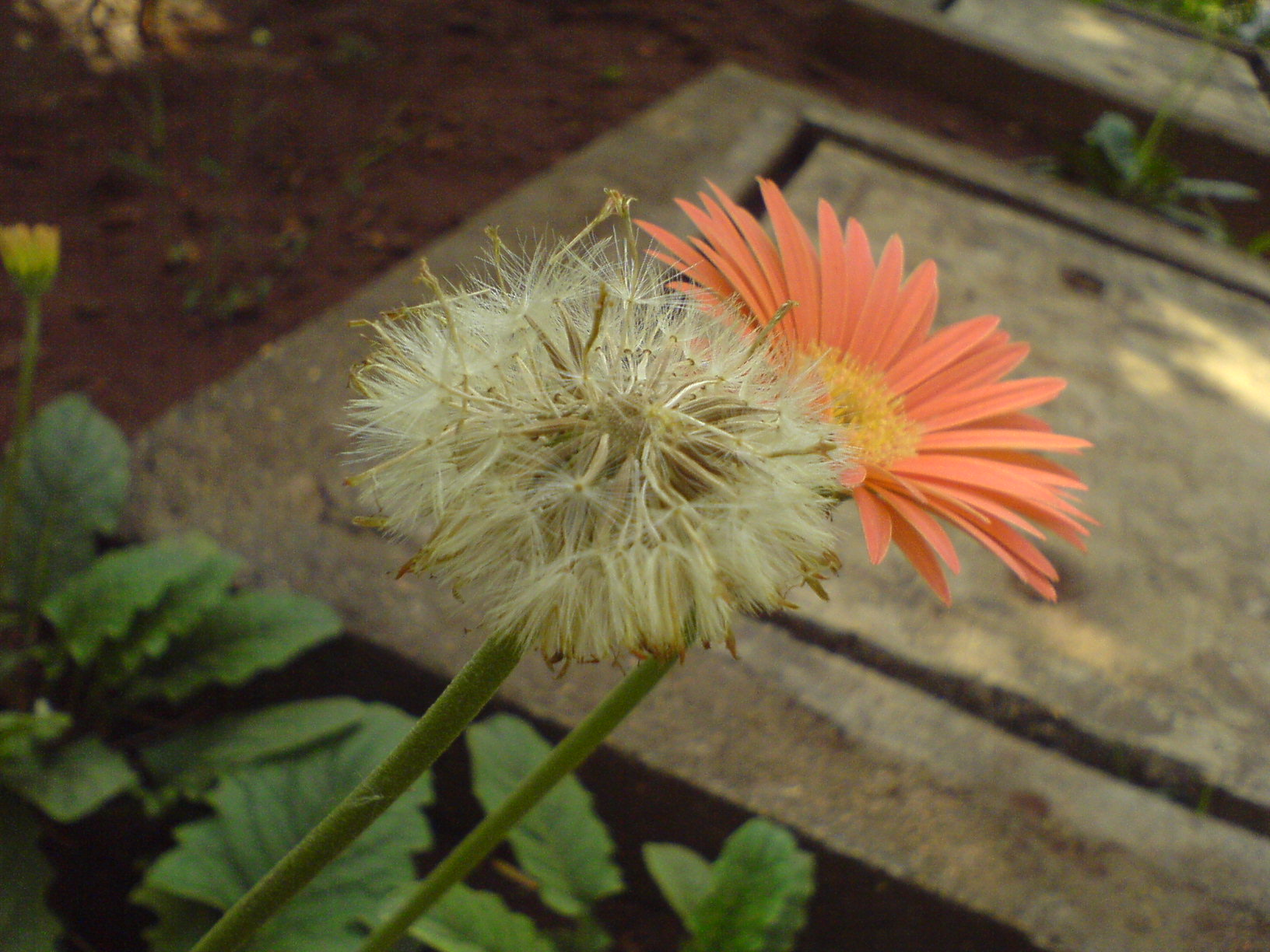 Common name: Gerbera Daisy, Transvaal Daisy, African Daisy, Barberton Daisy Botanical name: Gerbera jamesonii - [ (GER-ber-uh) named after Dr. Traugott Gerber, German naturalist; (jay-mess-OWN-ee-eye) named after Robert Jameson, 19th century amateur botanist who discovered the species ] Family: Asteraceae or alternatively Compositeae - [ (ass-ter-AY-see-ay) the aster (daisy) family; formerly Compositae ] Origin: South Africa Gerbera species bear a large capitulum with striking, 2-lipped ray florets in yellow, orange, white, pink or red colors. The capitulum, which has the appearance of a single flower, is actually composed of hundreds of individual flowers. The morphology of the flowers varies depending on their position in the capitulum. Gerbera is very popular and widely used as a decorative garden plant or as cut flowers. The domesticated cultivars are mostly a result of a cross between Gerbera jamesonii and another South African species Gerbera viridifolia. The cross is known as Gerbera hybrida. Thousands of cultivars exist. They vary greatly in shape and size. Colours include white, yellow, orange, red, and pink. The centre of the flower is sometimes black. Often the same flower can have petals of several different colours. Courtesy: - Flowers of India - Dave's Garden - From Wikipedia, the free encyclopedia Note: Identification attempted; may not be accurate.